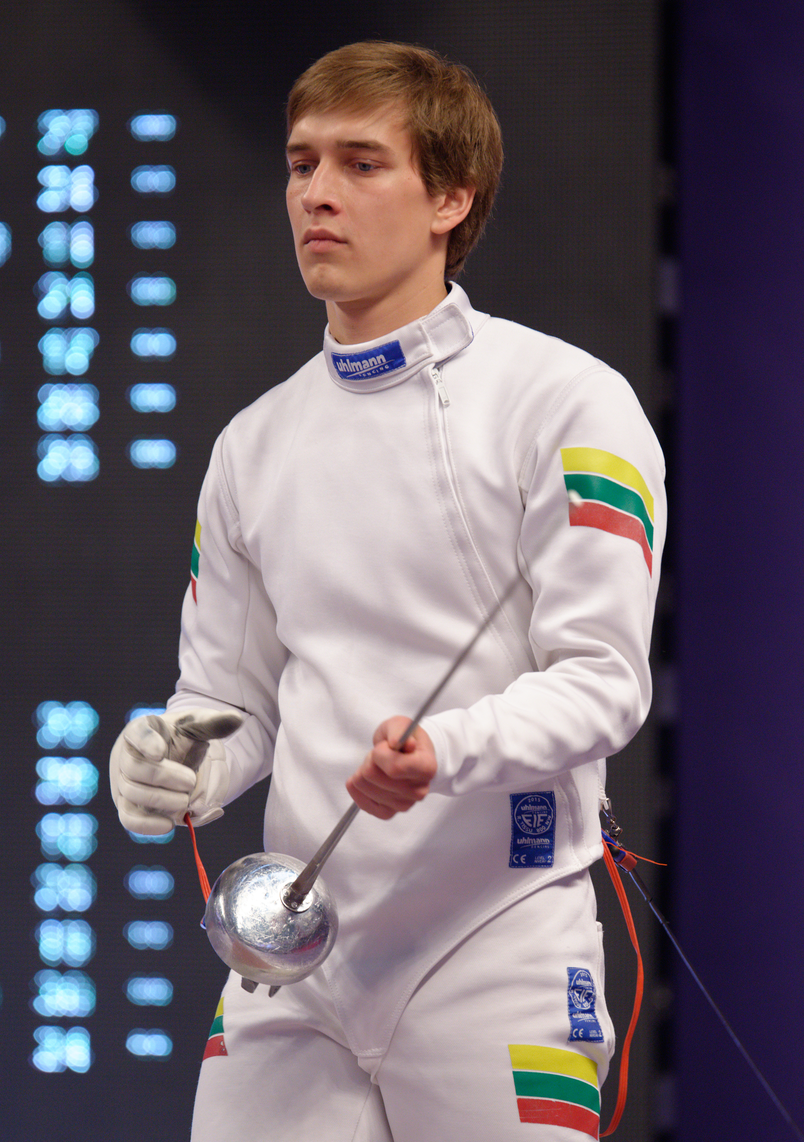 Lithuania's Paulius Stasiunas at the qualification stage of the Challenge SNCF Réseau-Trophée Monal 2015, a stage of the men's épée World Cup.